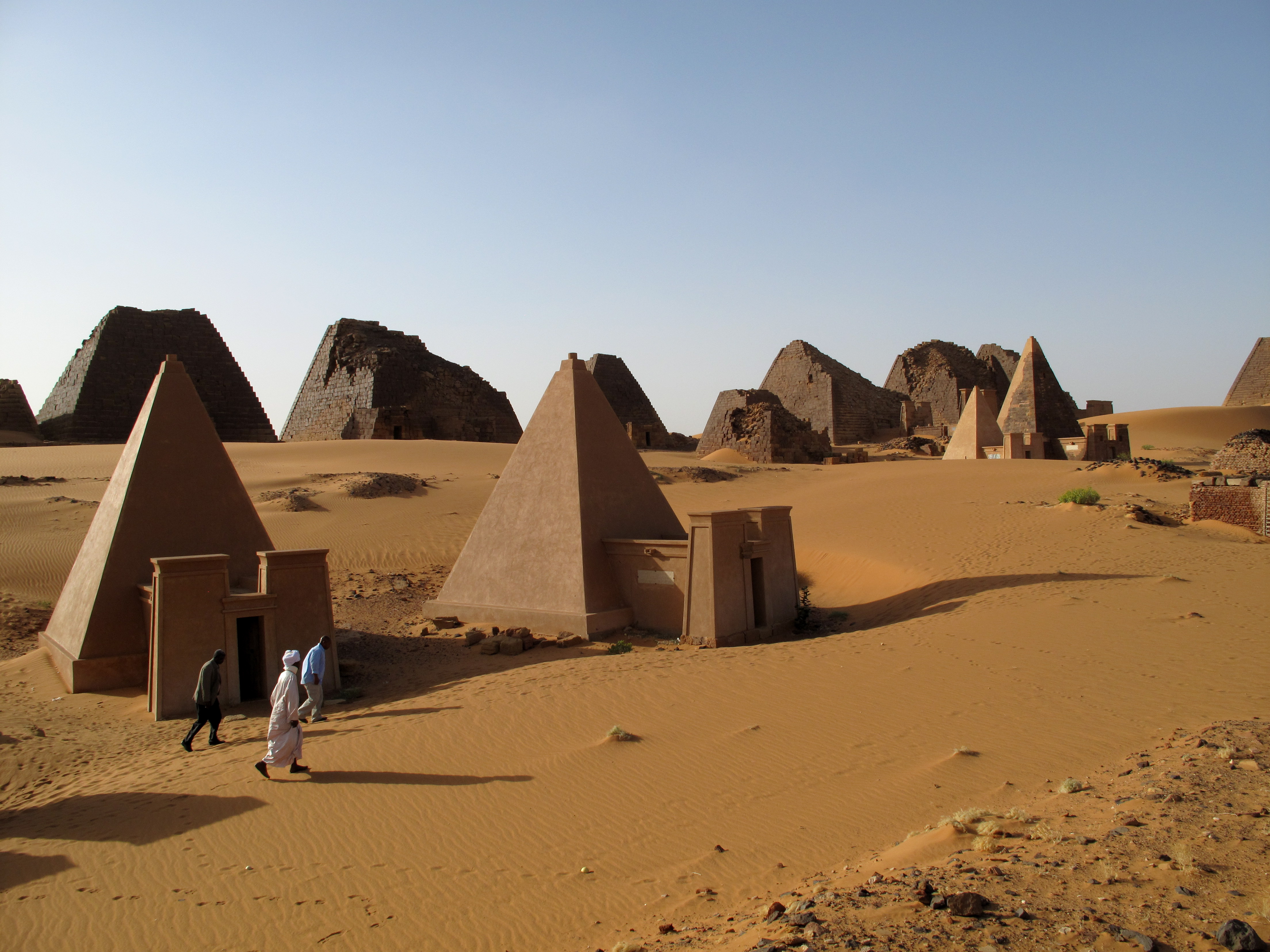 Archaeological Sites of the Island of Meroe (Sudan)